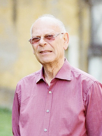 Prof. Uzi Even